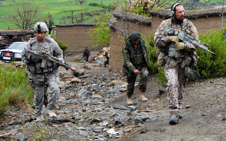 Soldiers from the Michigan National Guard and the Latvian army patrol through the village of Nishagam, in Konar province, Afghanistan alongside members of the Afghan national army.